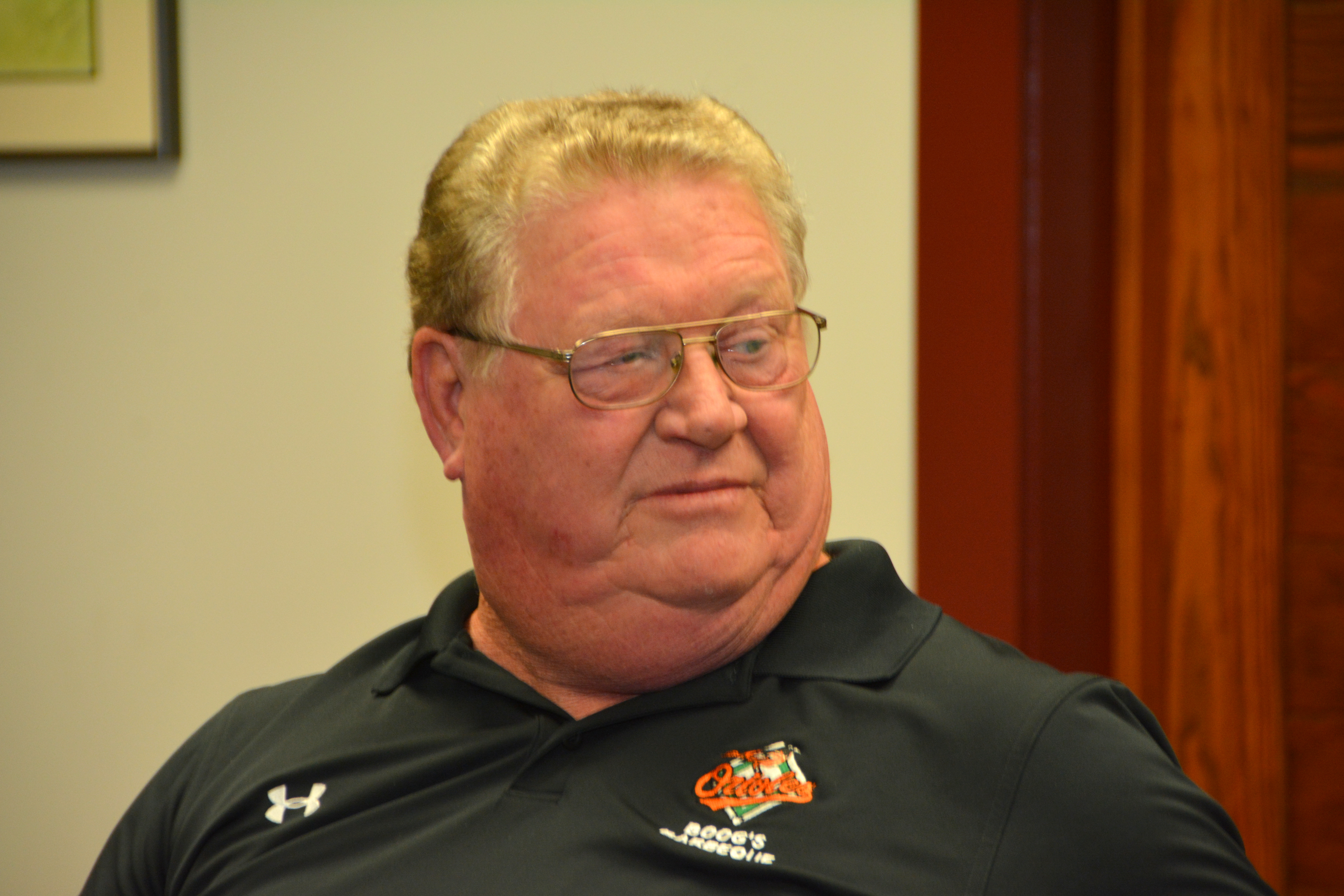 Boog Powell speaking at the Annapolis Book Festival at The Key School in Annapolis, Maryland on April 25, 2015.